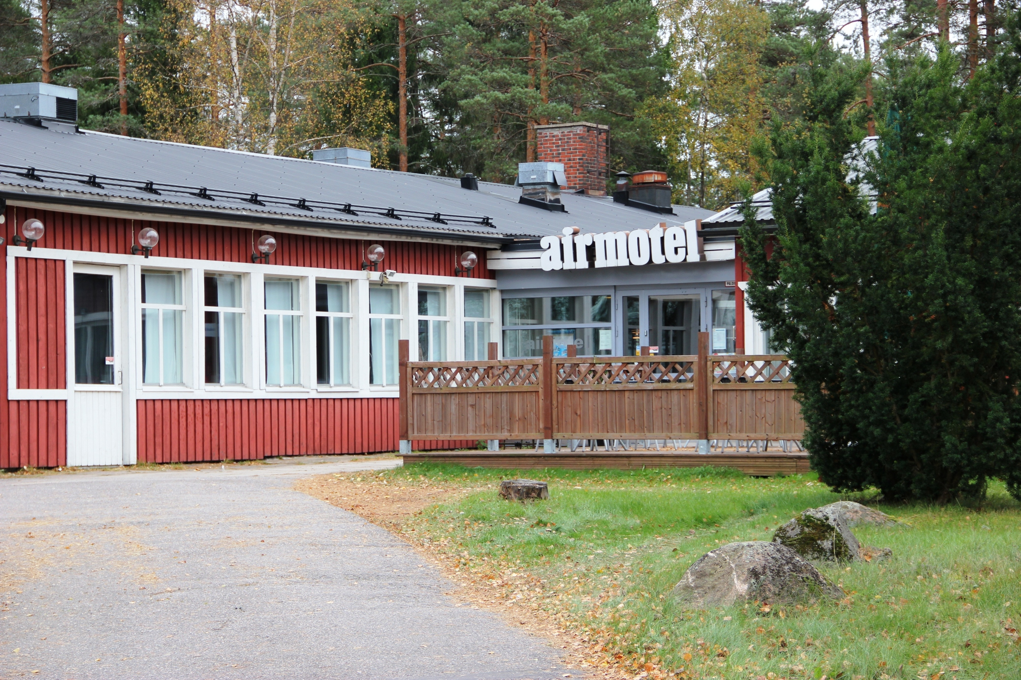 Air Motel at Nummela Airfield, Vihti, Finland